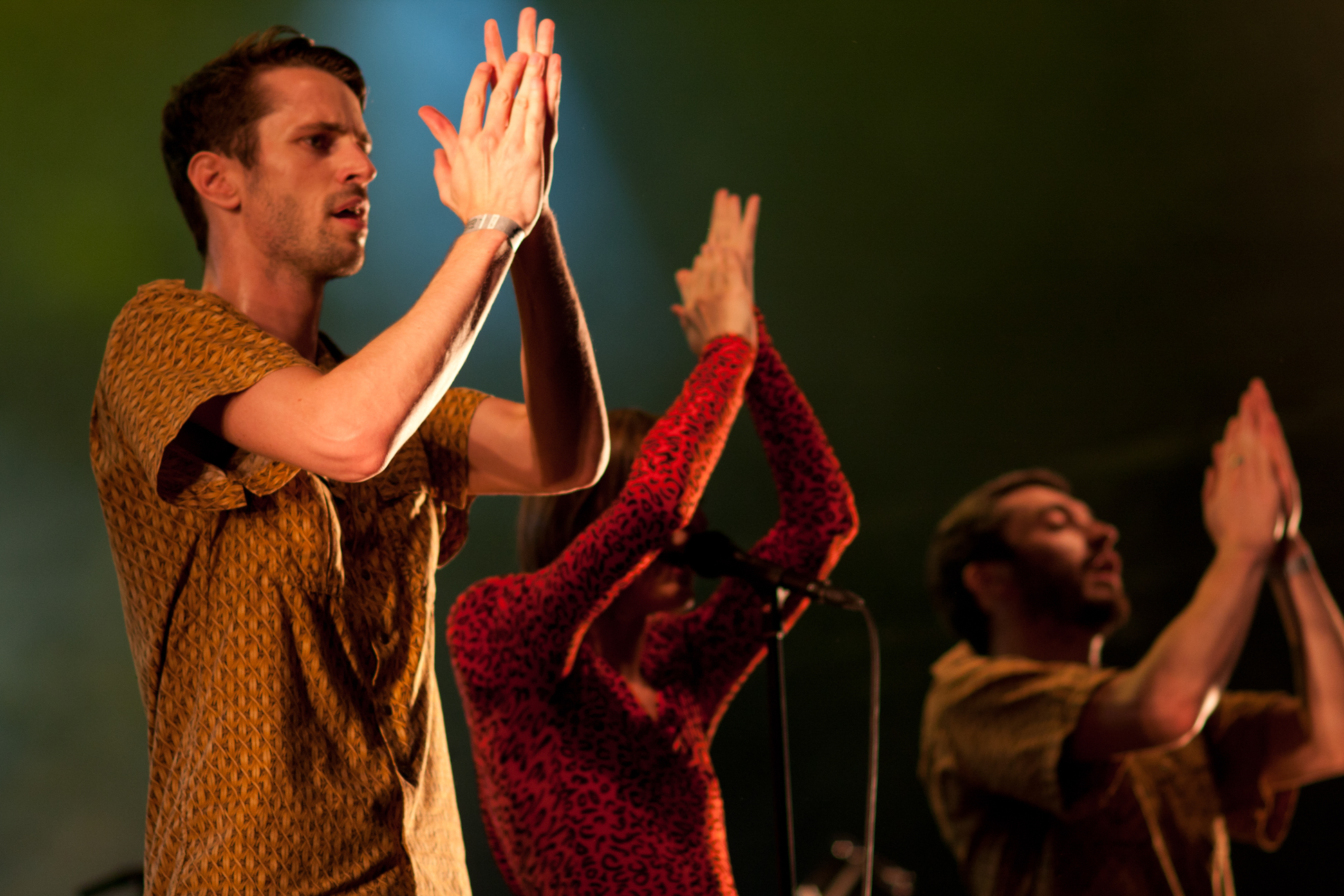 Follow me on facebook Twitter : @didyPhotography All the photographies I've made are now under CC0 (Creative Commons Zero) CC0 - learn more To the extent possible under law, Eddy BERTHIER has waived all copyright and related or neighboring rights to Yelle @ BSF 2011. This work is published from: France.